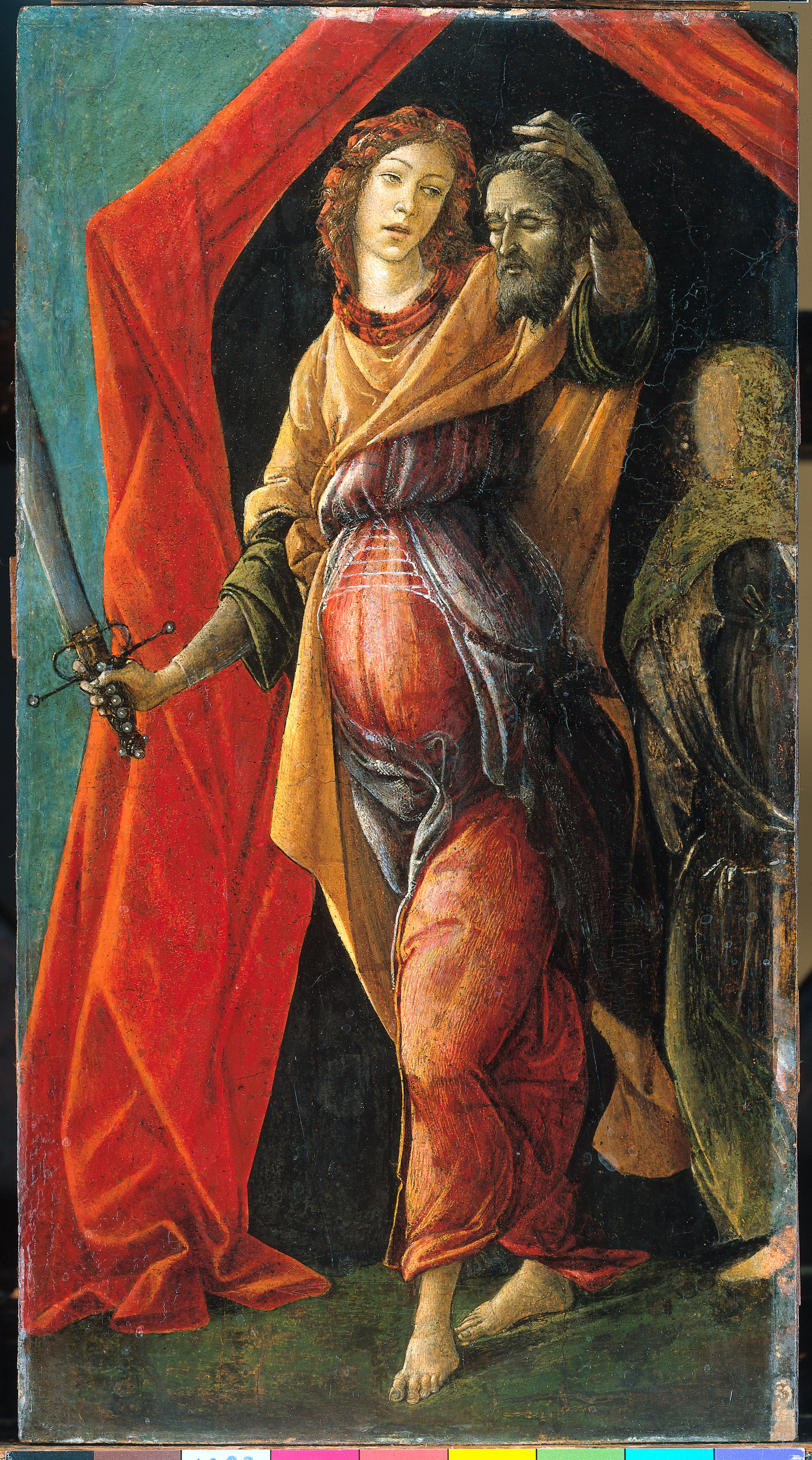 Judith Leaving the Tent of Holofernes